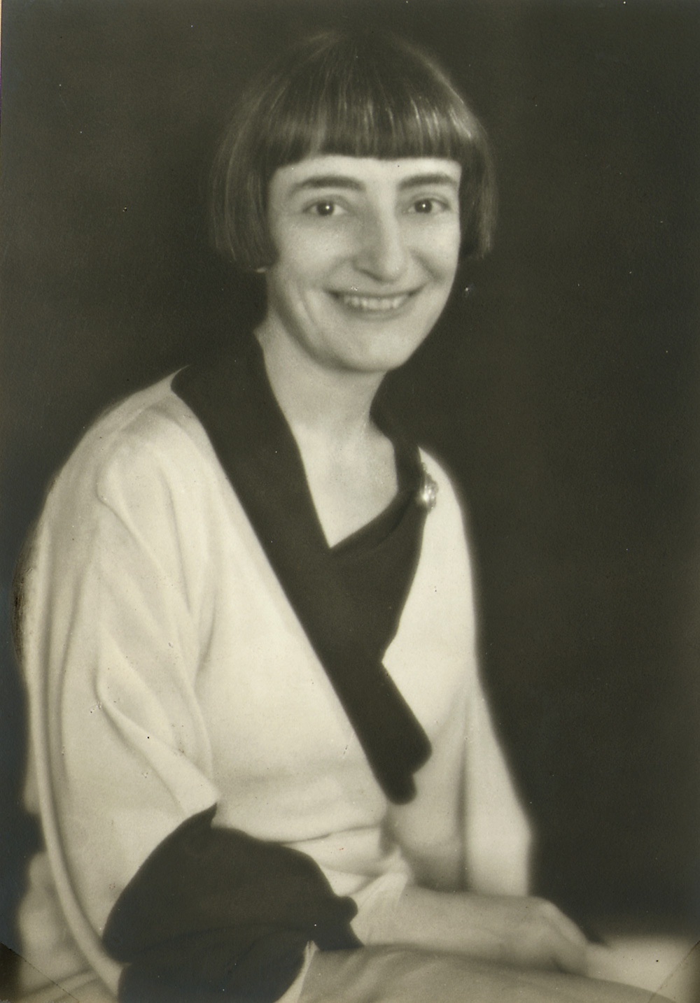 Sculptor of three relief portrait plaques of lawgivers in the House Chamber: Maimonides, Solon and Tribonian.